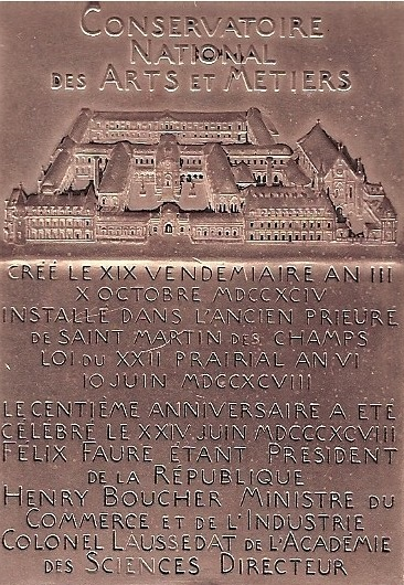 CONSERVATOIRE NATIONAL DES ARTS ET METIERS. Medal.